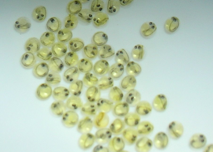 Eggs of the Burbot Lota lota from Belgian Hatchery near Brussel. Eggs ar 1 mm across. The small larvae which are already visible are very sensitive. Temperatures have to be between 2 and 6 degrees of Celsius, for survival. This member of the cod family spawns in winter.